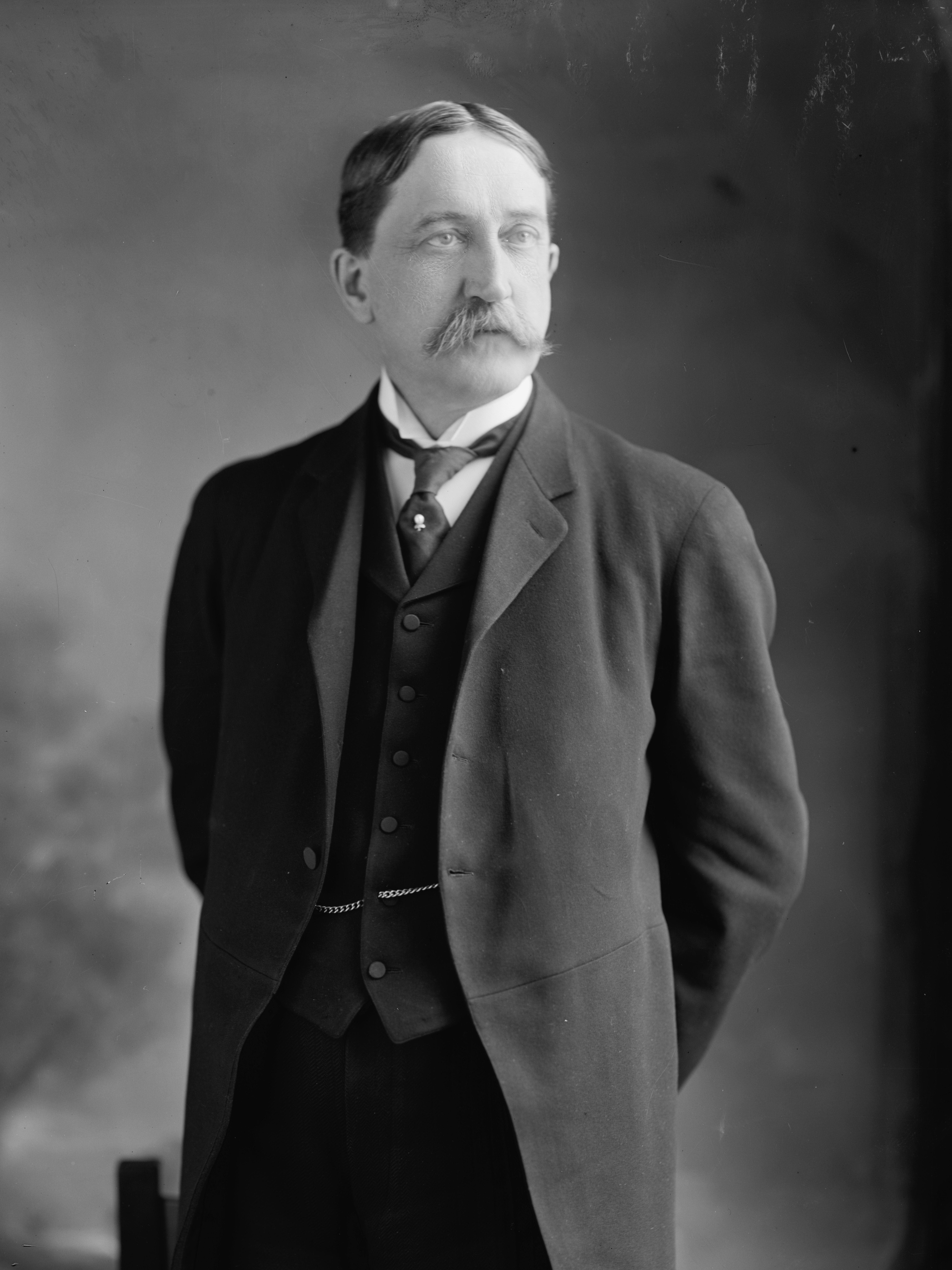 Title: OLCOTT, J.V.V. HONORABLE Abstract/medium: 1 negative : glass ; 8 x 10 in. or smaller